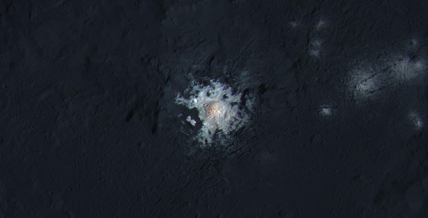 PIA20355: Center of Occator Crater (Enhanced Color) The bright central spots near the center of Occator Crater are shown in enhanced color in this view from NASA's Dawn spacecraft. Such views can be used to highlight subtle color differences on Ceres' surface. Lower resolution color data have been overlaid onto a higher resolution view (see PIA20350 and PIA20350-fig1) of the crater. The view was produced by combining the highest resolution images of Occator obtained in February 2016 (at image scales of 35 meters, or 115 feet, per pixel) with color images obtained in September 2015 (at image scales of 135 meters, or about 440 feet, per pixel). The three images used to produce the color were taken using spectral filters centered at 438, 550 and 965 nanometers (the latter being slightly beyond the range of human vision, in the near-infrared). The crater measures 57 miles (92 kilometers) across and 2.5 miles (4 kilometers) deep. Dawn's close-up view reveals a dome in a smooth-walled pit in the bright center of the crater. Numerous linear features and fractures crisscross the top and flanks of this dome. Dawn's mission is managed by JPL for NASA's Science Mission Directorate in Washington. Dawn is a project of the directorate's Discovery Program, managed by NASA's Marshall Space Flight Center in Huntsville, Alabama. UCLA is responsible for overall Dawn mission science. Orbital ATK, Inc., in Dulles, Virginia, designed and built the spacecraft. The German Aerospace Center, the Max Planck Institute for Solar System Research, the Italian Space Agency and the Italian National Astrophysical Institute are international partners on the mission team. For a complete list of acknowledgments, For more information about the Dawn mission, visit